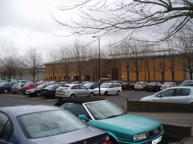 Her Majesty's Prison Belmarsh, photographed from the visitor's car park.